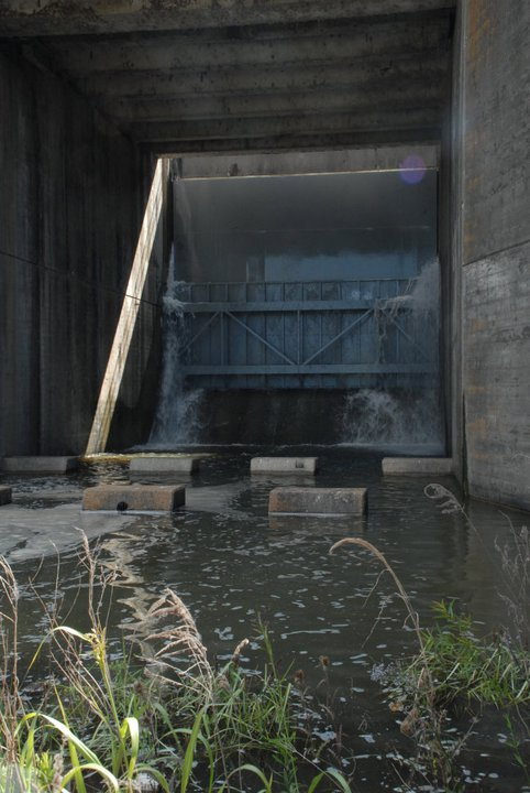 LOUISIANA — One of the 125 gates on the tail bay side of the Morganza Floodway. (U.S. Army Corps of Engineers photo)